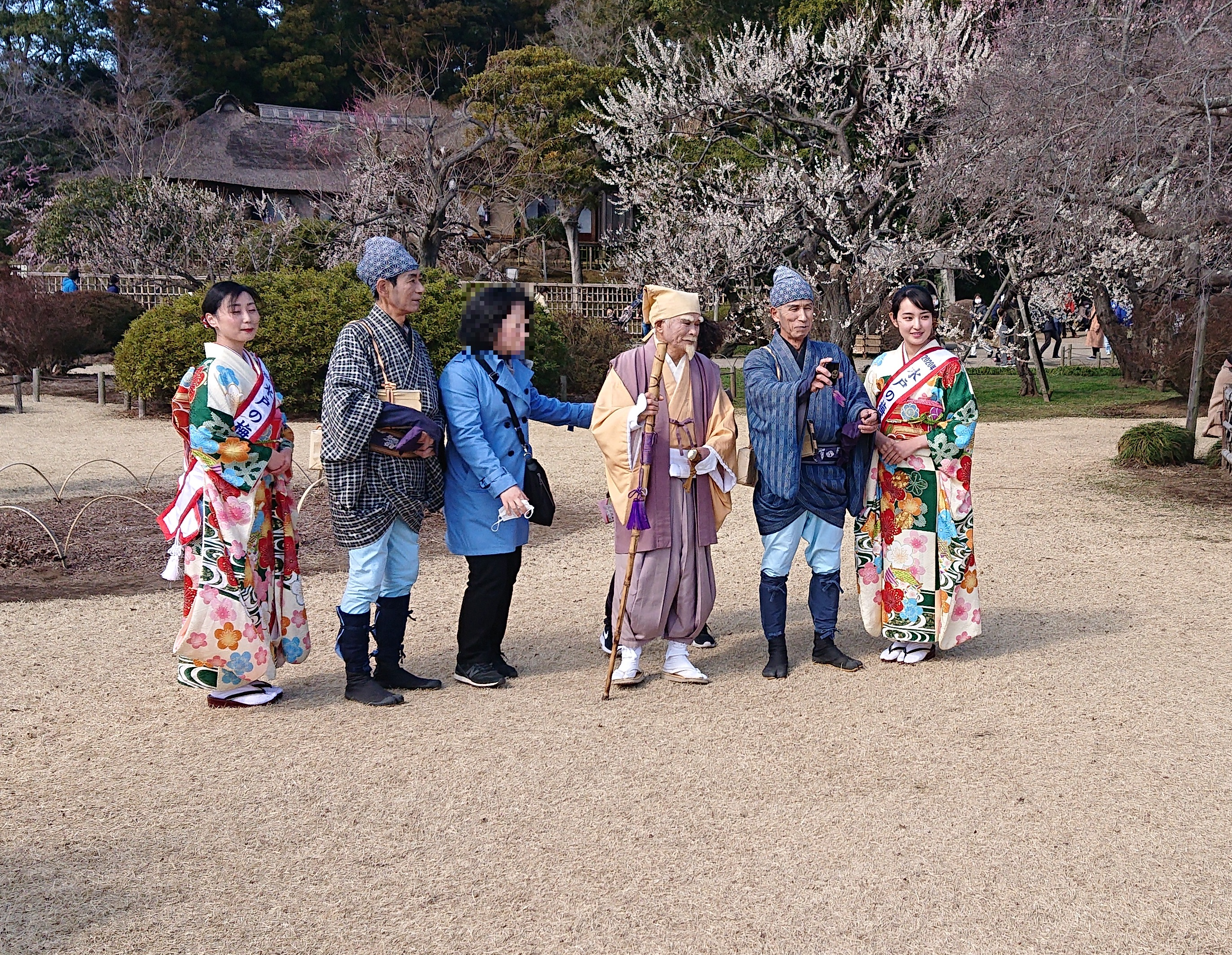 They are Mito Kōmon, Suke-san, Kaku-san and Ambassadors of Mito no Ume at Kairakuen, Mito city, Ibaraki prefecture, Japan.